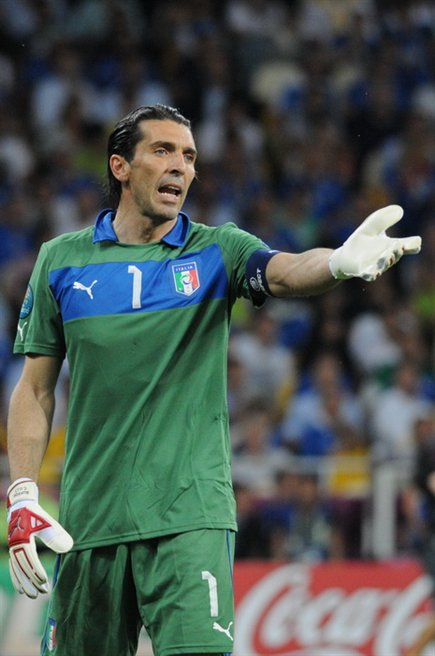 Gianluigi Buffon at Euro 2012 final Spain-Italy